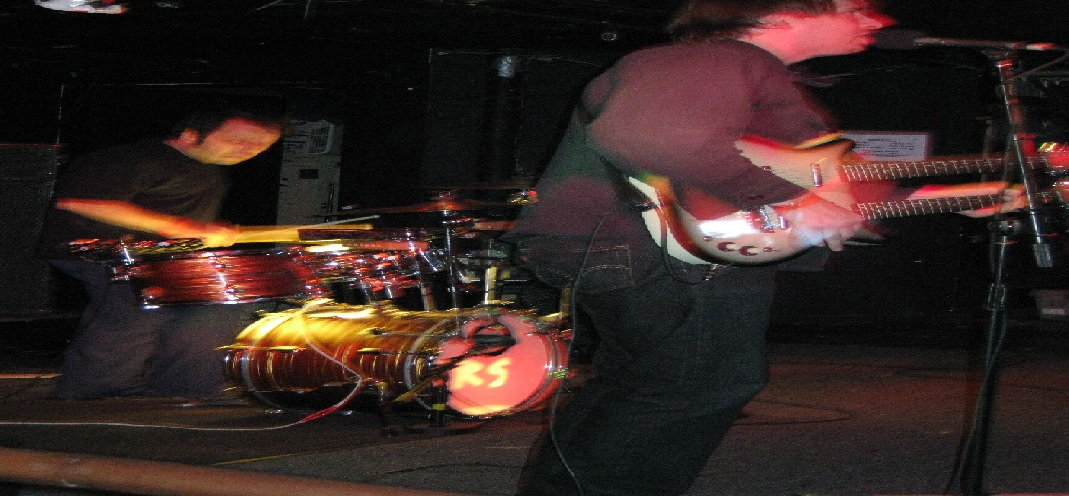 Box Elders playing at the Middle East Downstairs on March 25, 2010.